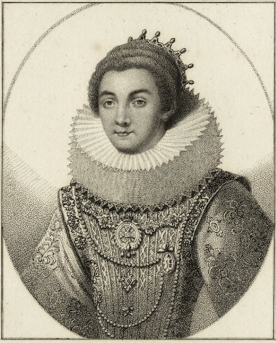 Anne Cornwallis or Anne, countess of Argyll (1590 – 12 January, 1635) was an English Roman Catholic benefactor and one time supposed author. - this is very like an engraving by Silvester Harding. This image is created long after she died and notes that it is based a painting owned by Mary Coke